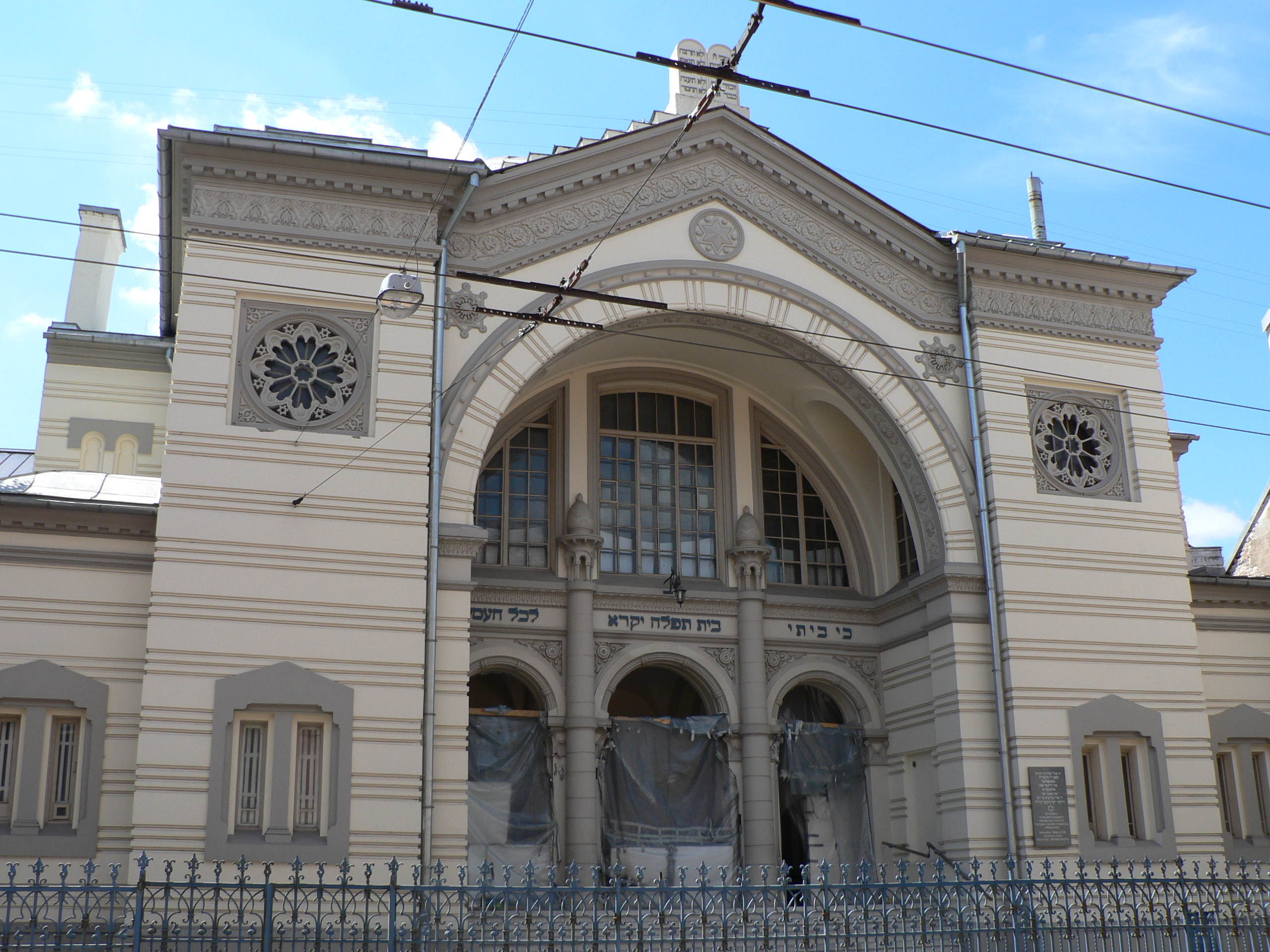 Synagogue in Vilnius, Lithuania.